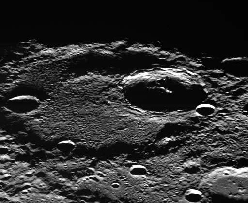 Boznańska crater (right of center) lies within a much larger and older unnamed crater. MESSENGER Wide Angle Camera image. North is at left. Width is approximately 94 km at bottom. Emission Angle: 60.0 Incidence Angle: 88.1 Latitude: 60.4 Longitude: 319.8 Phase Angle: 28.1